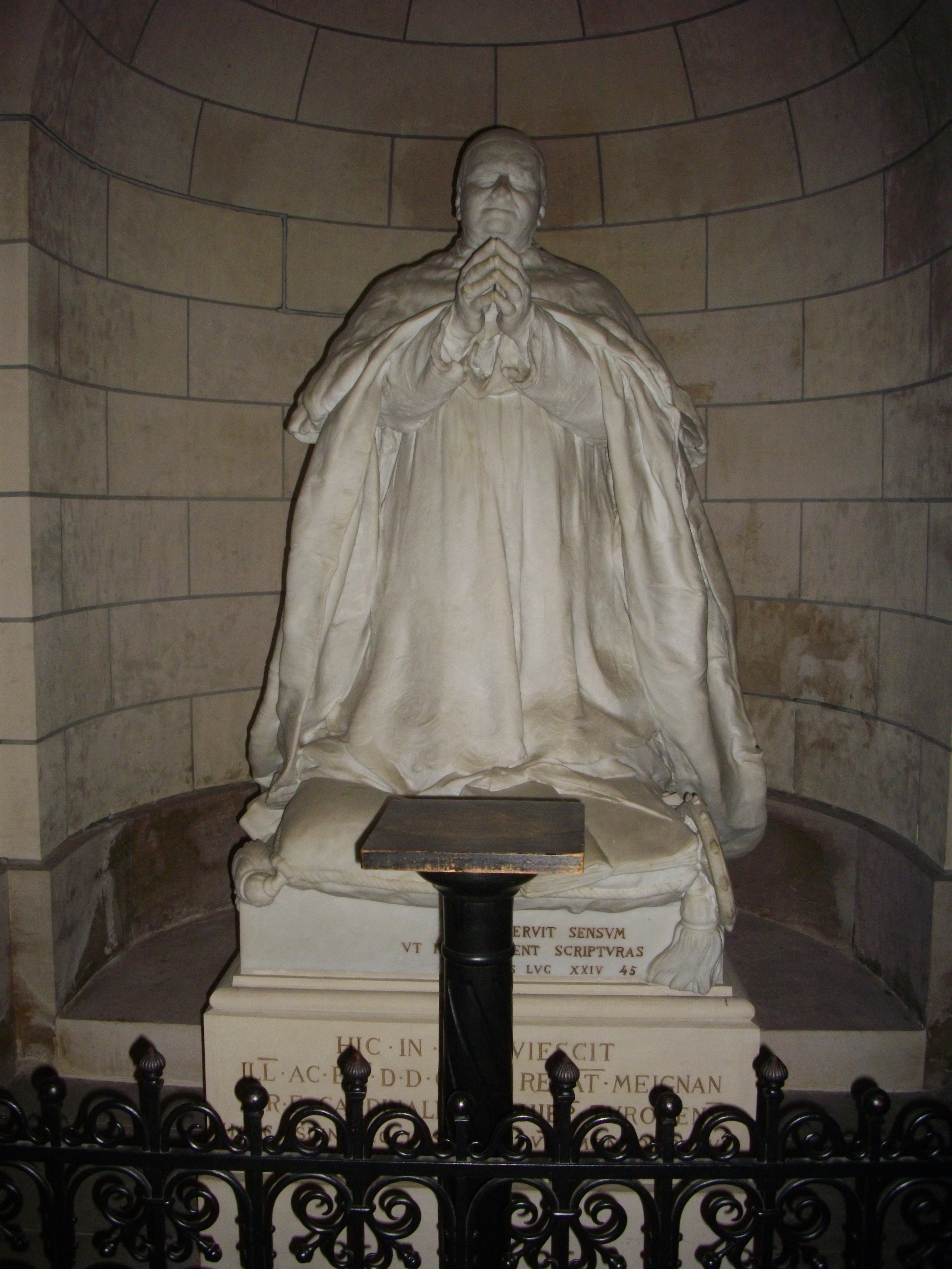 Interior of Saint Martin basilica of Tours (Indre-et-Loire, France) .